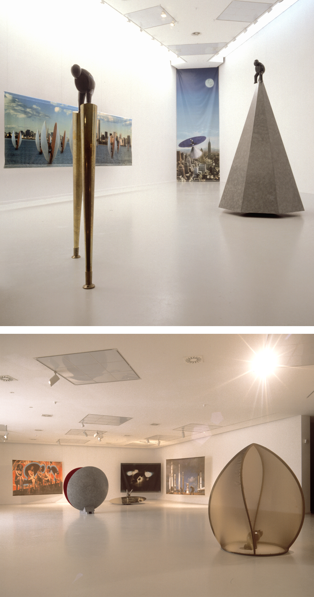 SOH1, exhibition Alex Vermeulen, Museum of Modern Art, Antwerp (B) 1999